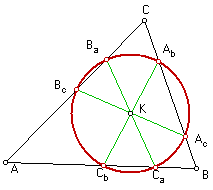 The second circle of Lemoine.